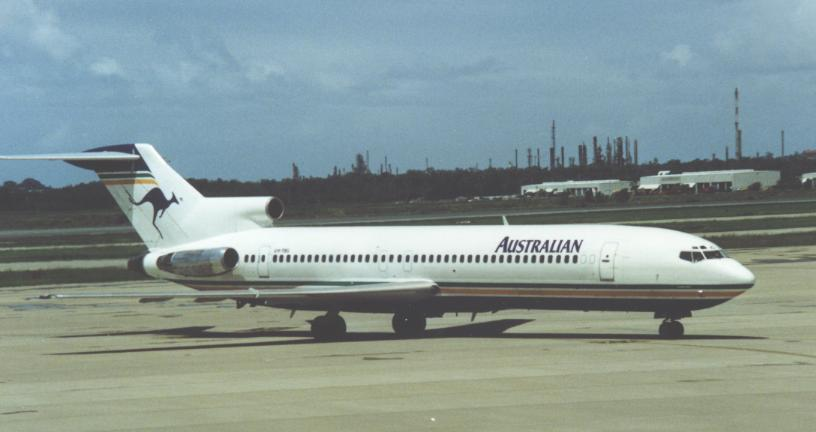 Boeing 727-276 of Australian Airlines at Brisbane